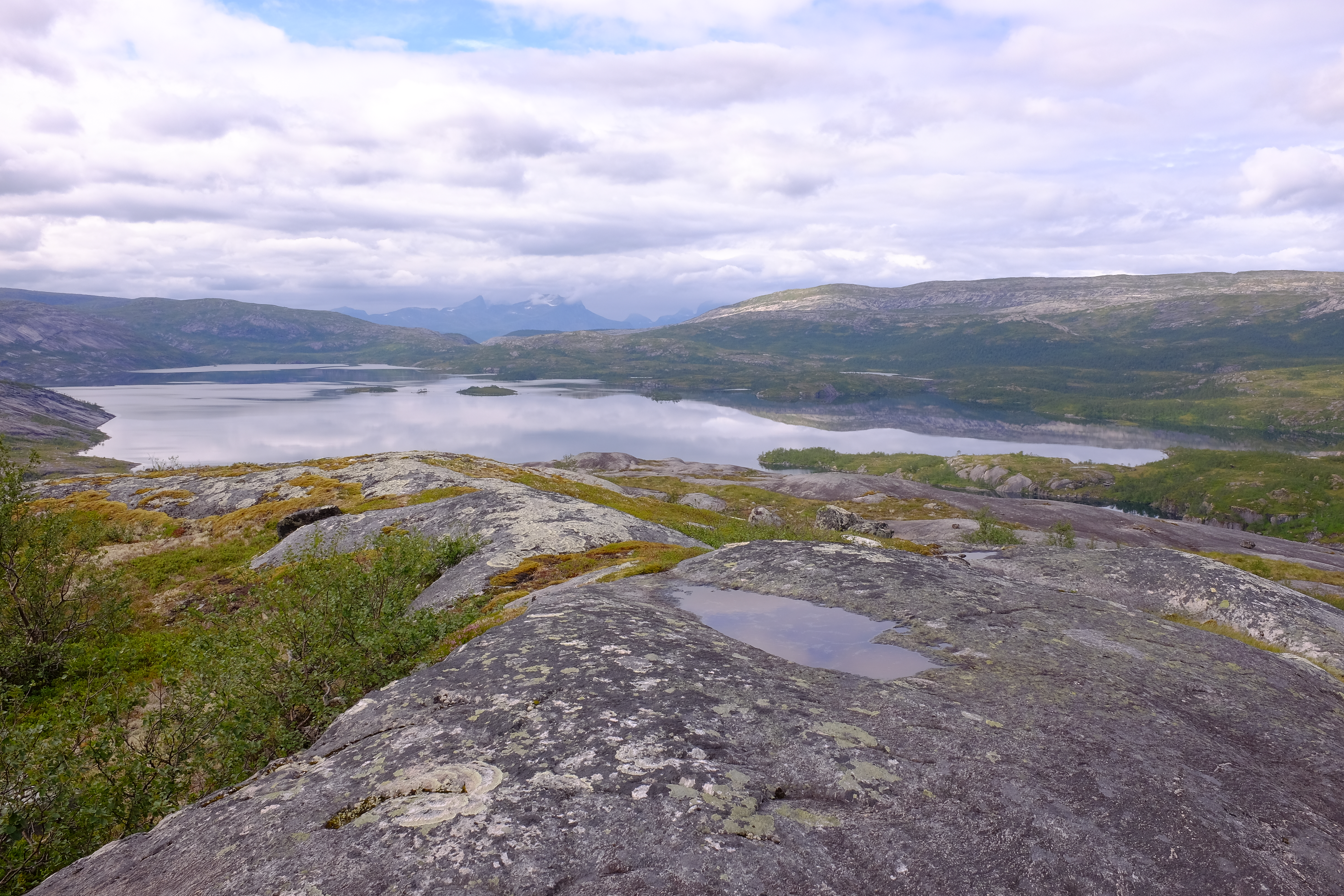 Faulvatnet lake seen from the northeast, Sørfold, Nordland, Norge.